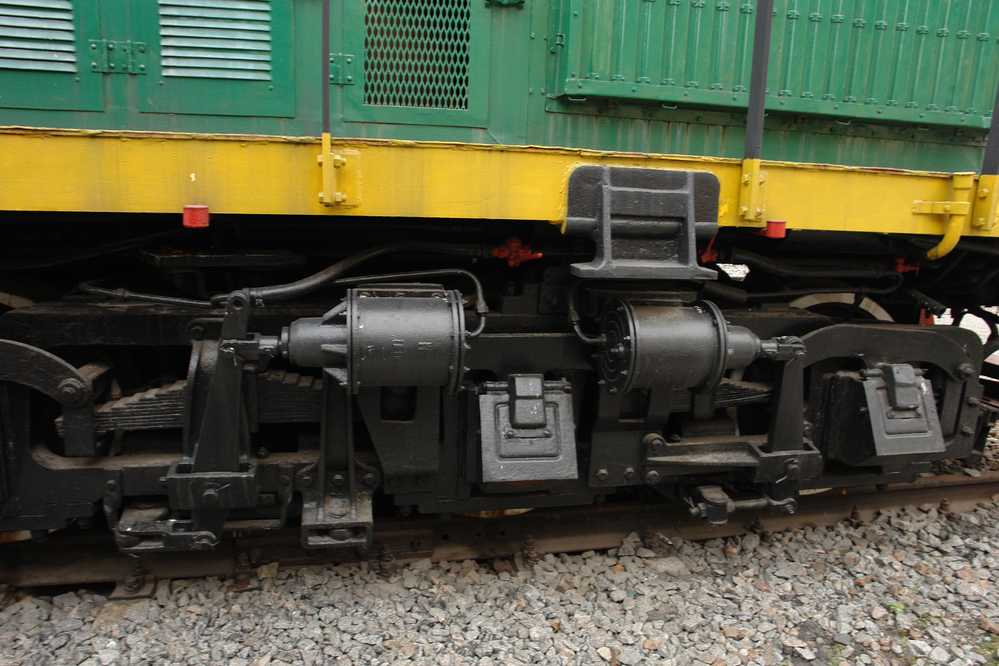 Freight and passenger diesel locomotive TE1-20-135